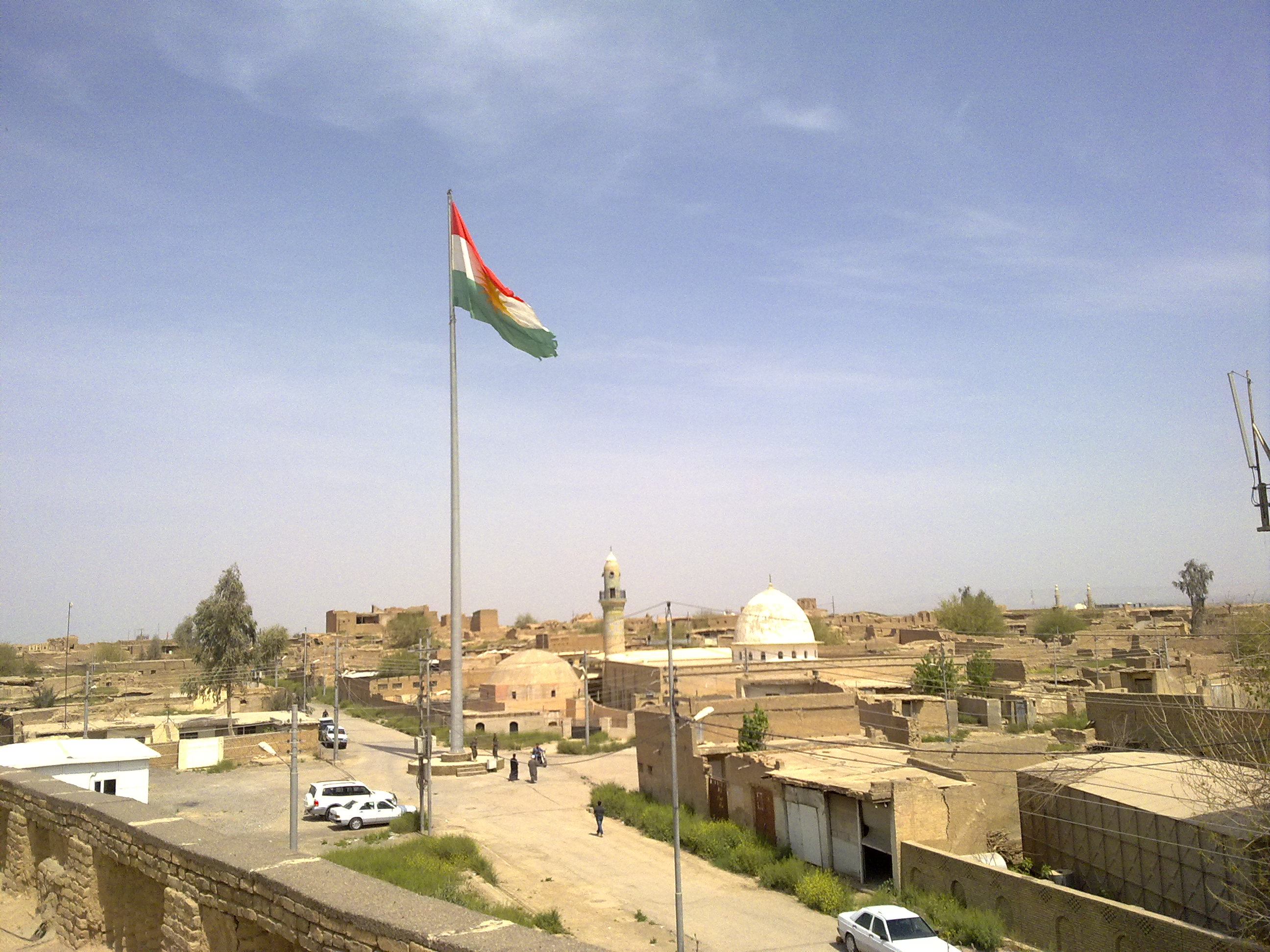 Center of Hewler Castle